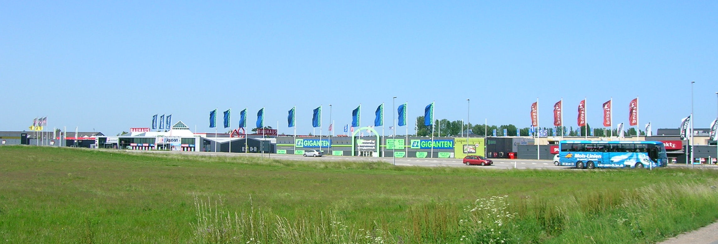 The shopping mall in Holbæk called "Holbæk Mega Center"